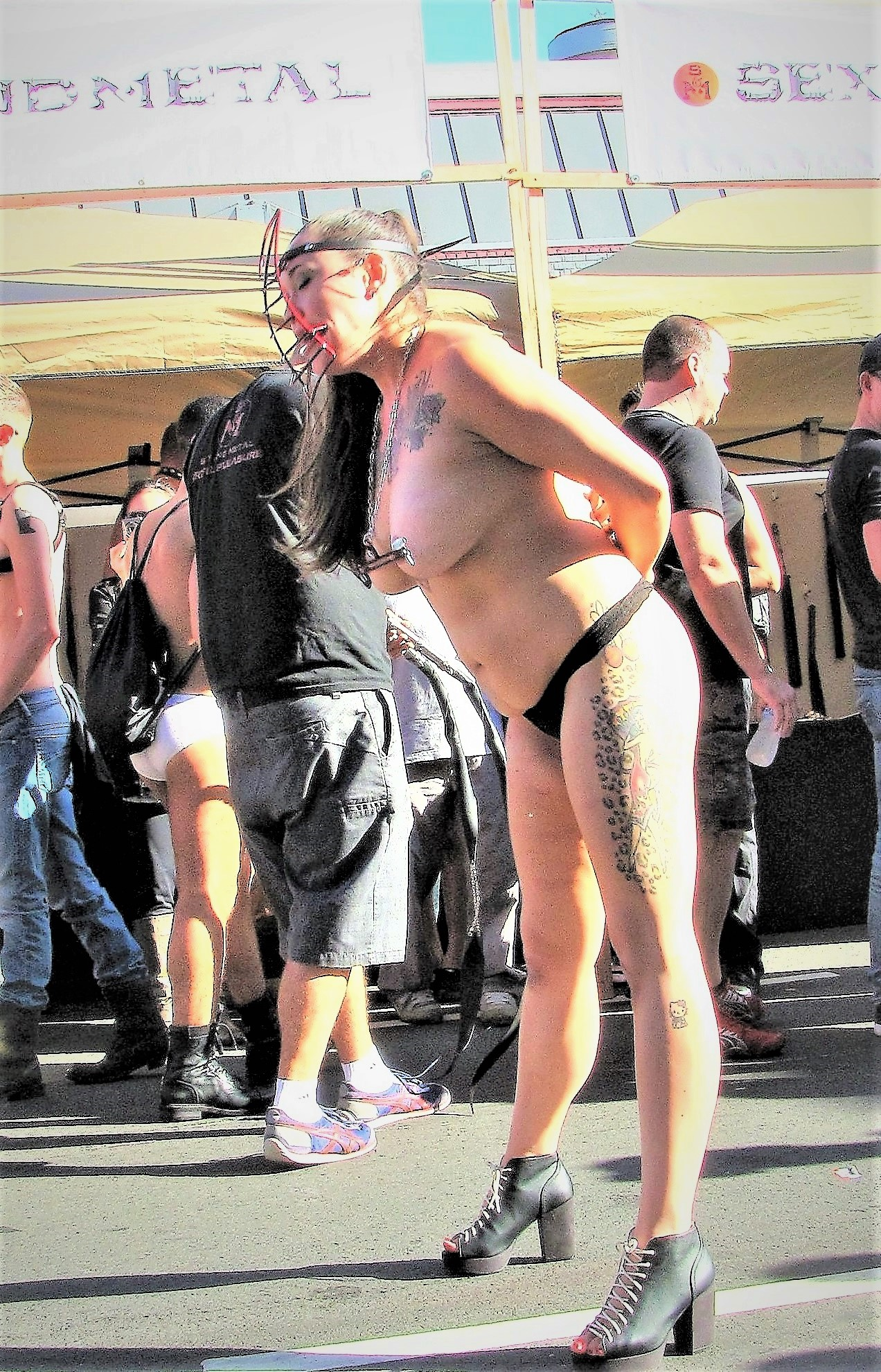 Folsom Street Fair 2013, San Francisco